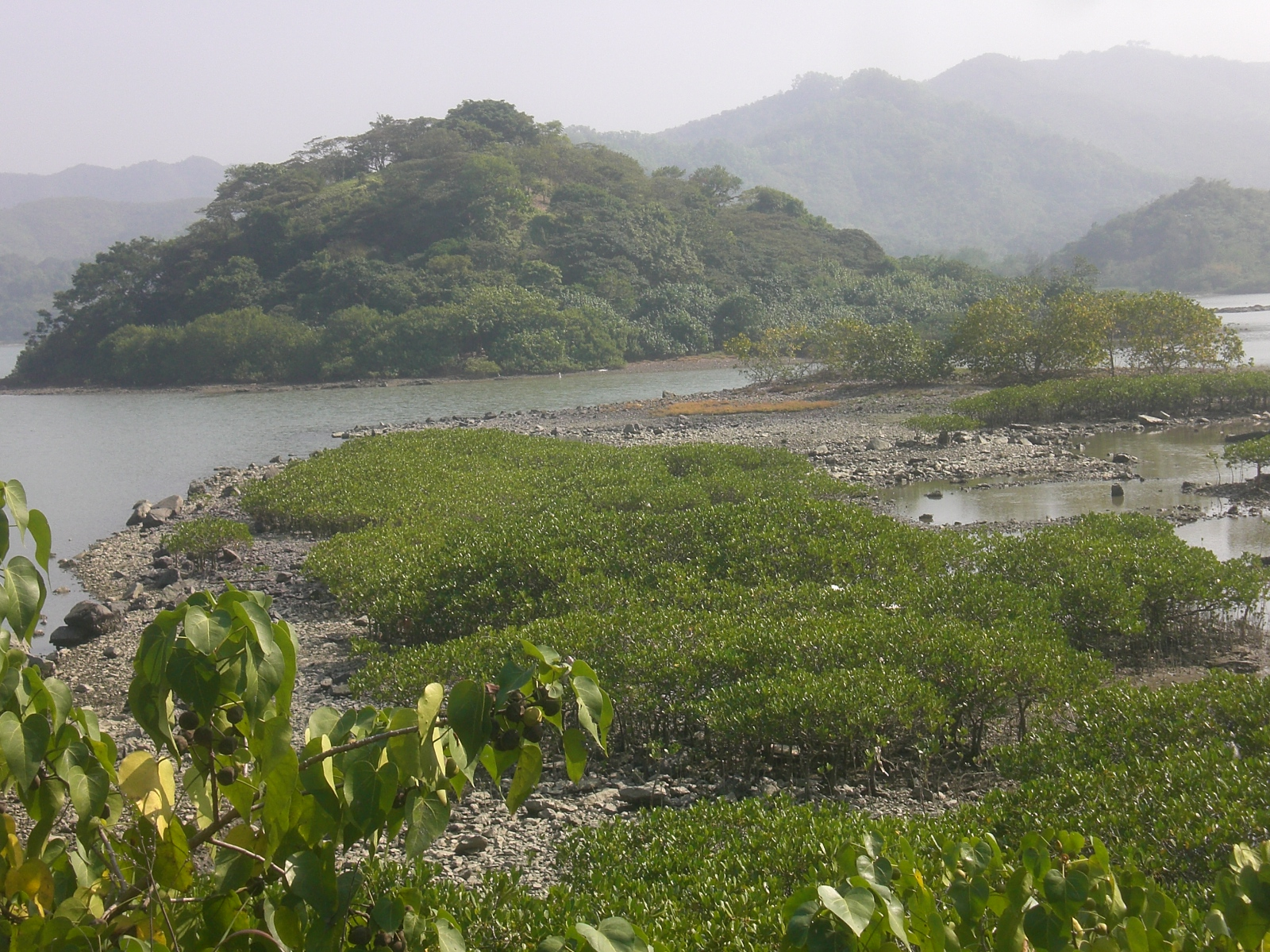 香港北區zh:鹿頸路